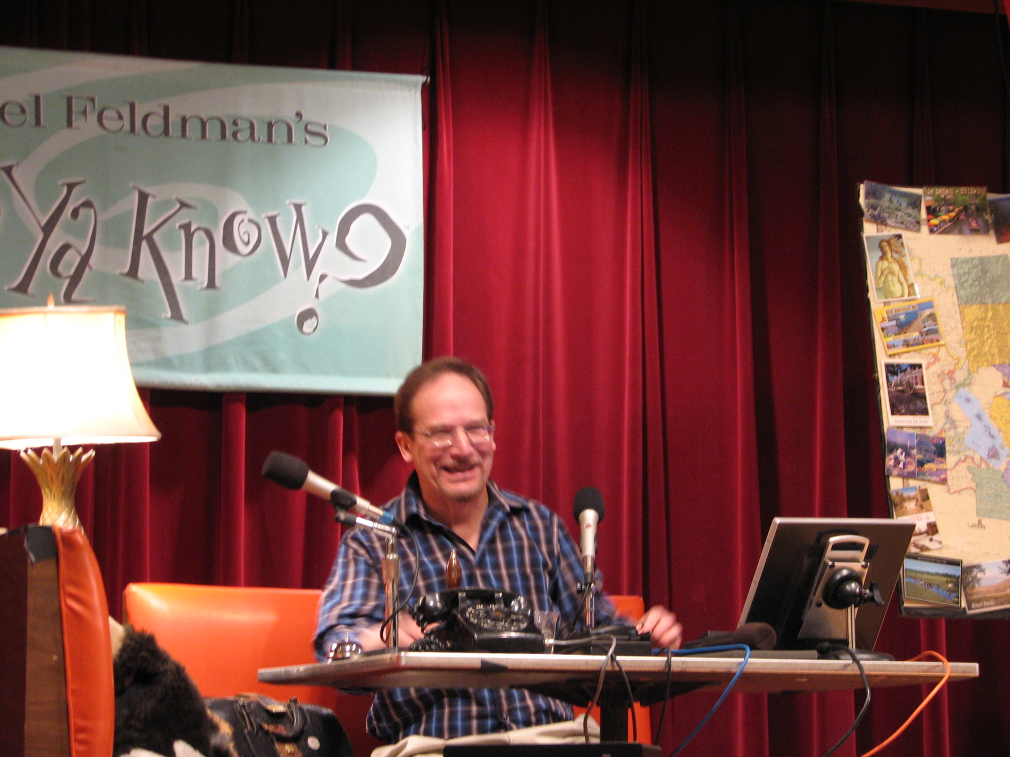 Michael Feldman - Host of "What Do Ya Know?" on National Public Radio